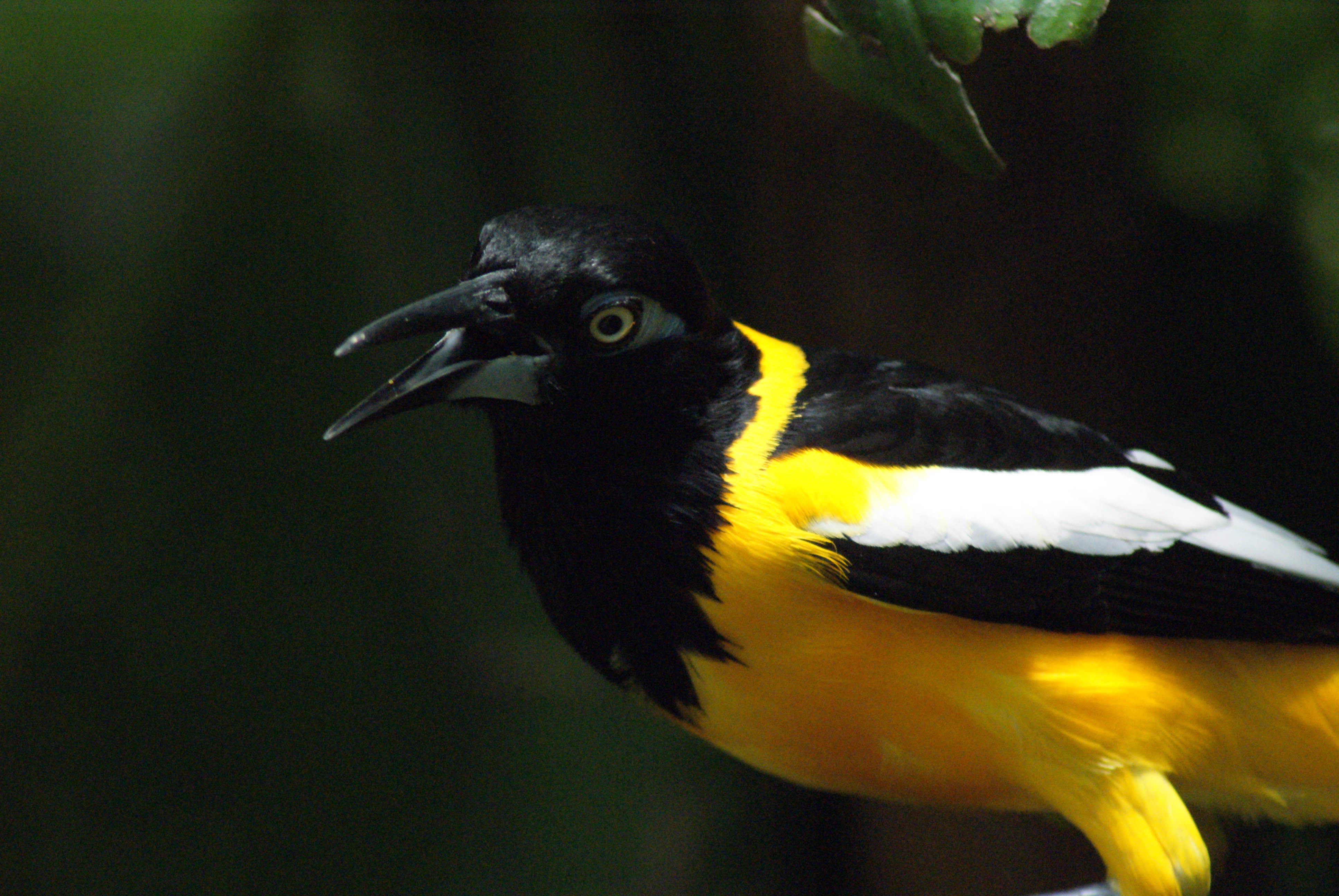 A Troupial at Central Park Zoo, New York, USA.